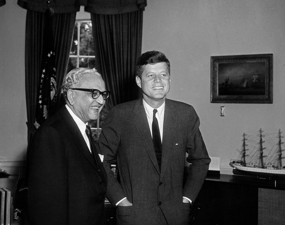 President John F. Kennedy meets with the Ambassador of India, Mohamed Ali (Mahommedali) Currim Chagla. Oval Office, White House, Washington, D.C.